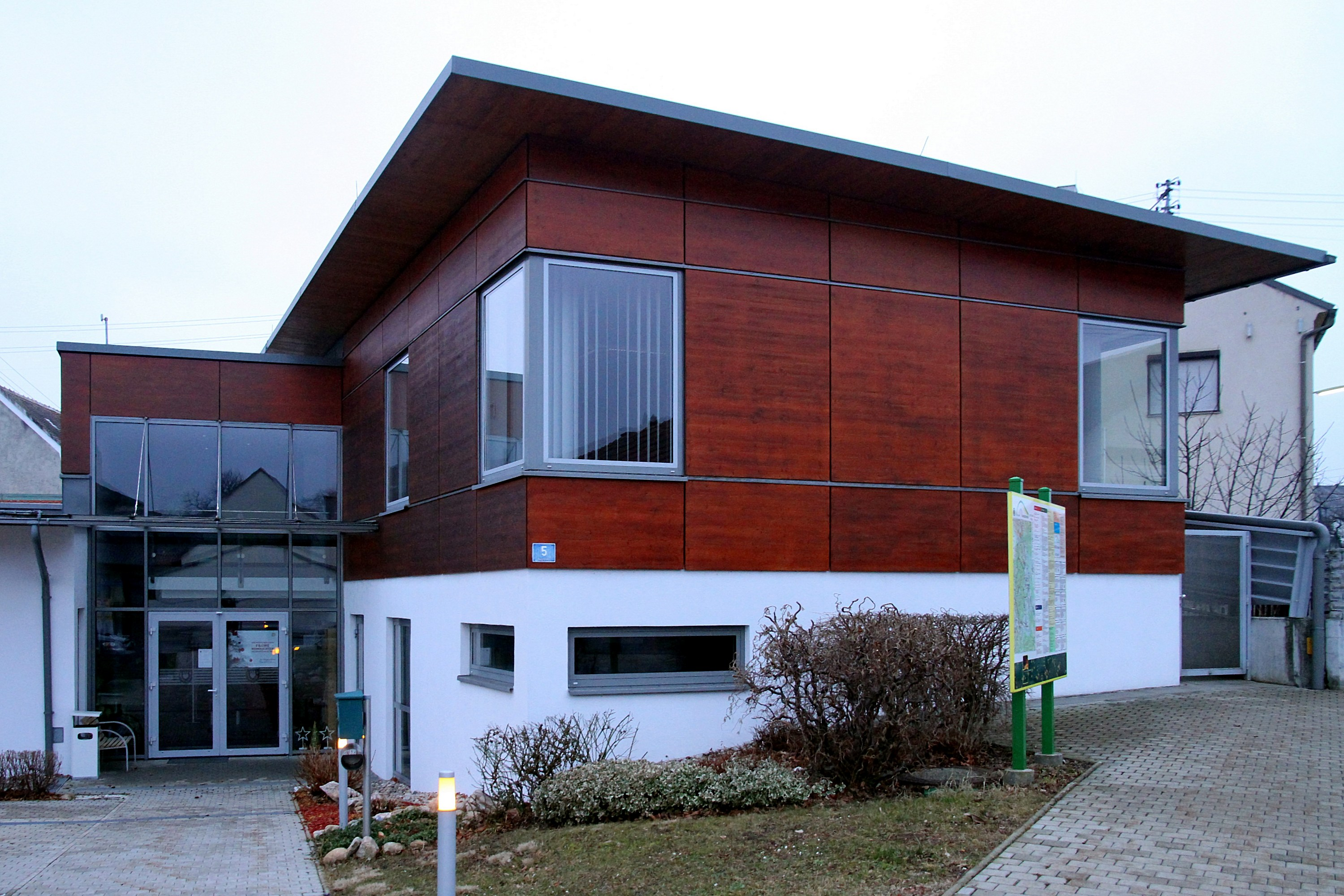 Weingraben - municipal office